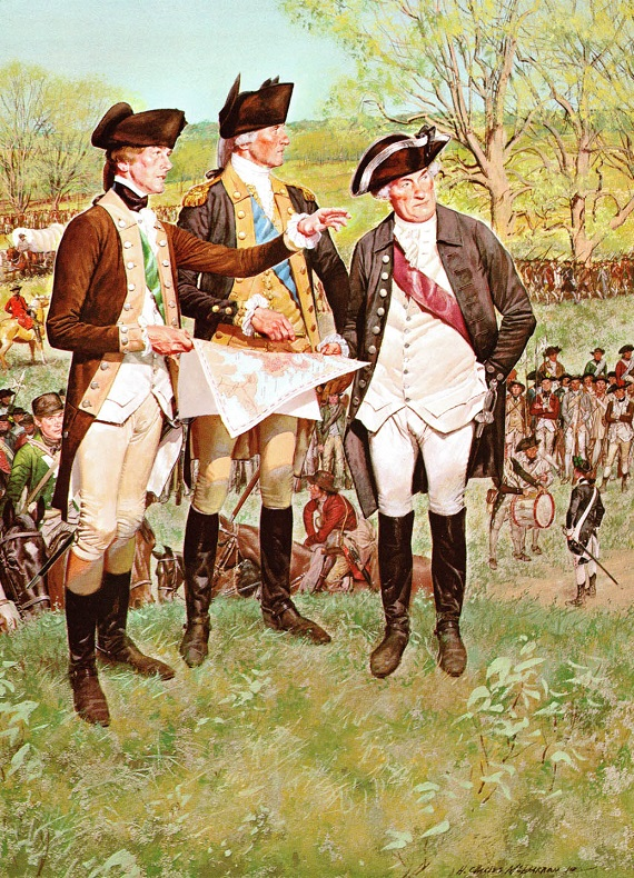 In this scene from one of General Washington's surveys of the lines before Boston, an aide-de-camp in a brown semi-military coat with buff facings and the green ribbon of his position across his chest is seen in the left foreground. In the center foreground General Washington is shown in the blue and buff "suit of regimentals" he had had made that spring, and worn at the sessions of the Second Continental Congress in Philadelphia. The light blue sash on his breast denotes his rank as "Commander in Chief." In the right foreground is Major General Artemas Ward in a plain dark military style coat and the purple sash of a major general over his white small clothes. All three of the foreground figures wear black cockades on their hats as did their British adversaries. In the background are various regiments of General Ward's Division in the motley array of the Continental troops before Boston, the officers distinguished by their cockades.